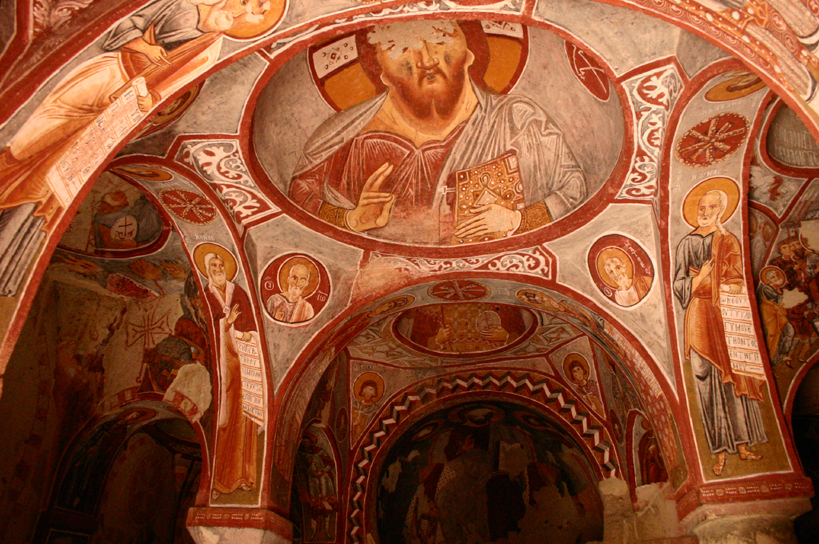 Rock chapel Goreme open air museum Turkey